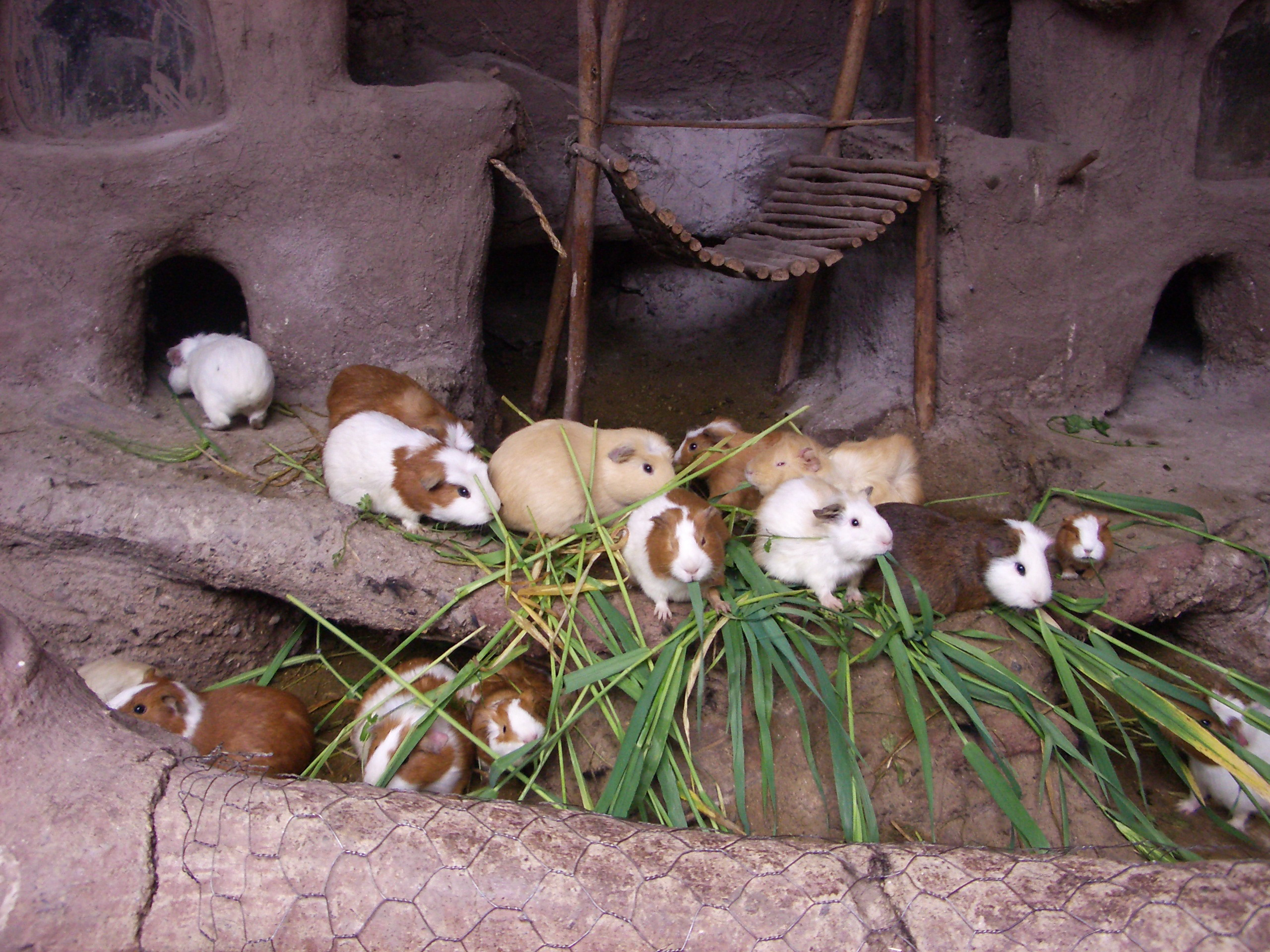 Peruvian guinea pigs being raised for consumption